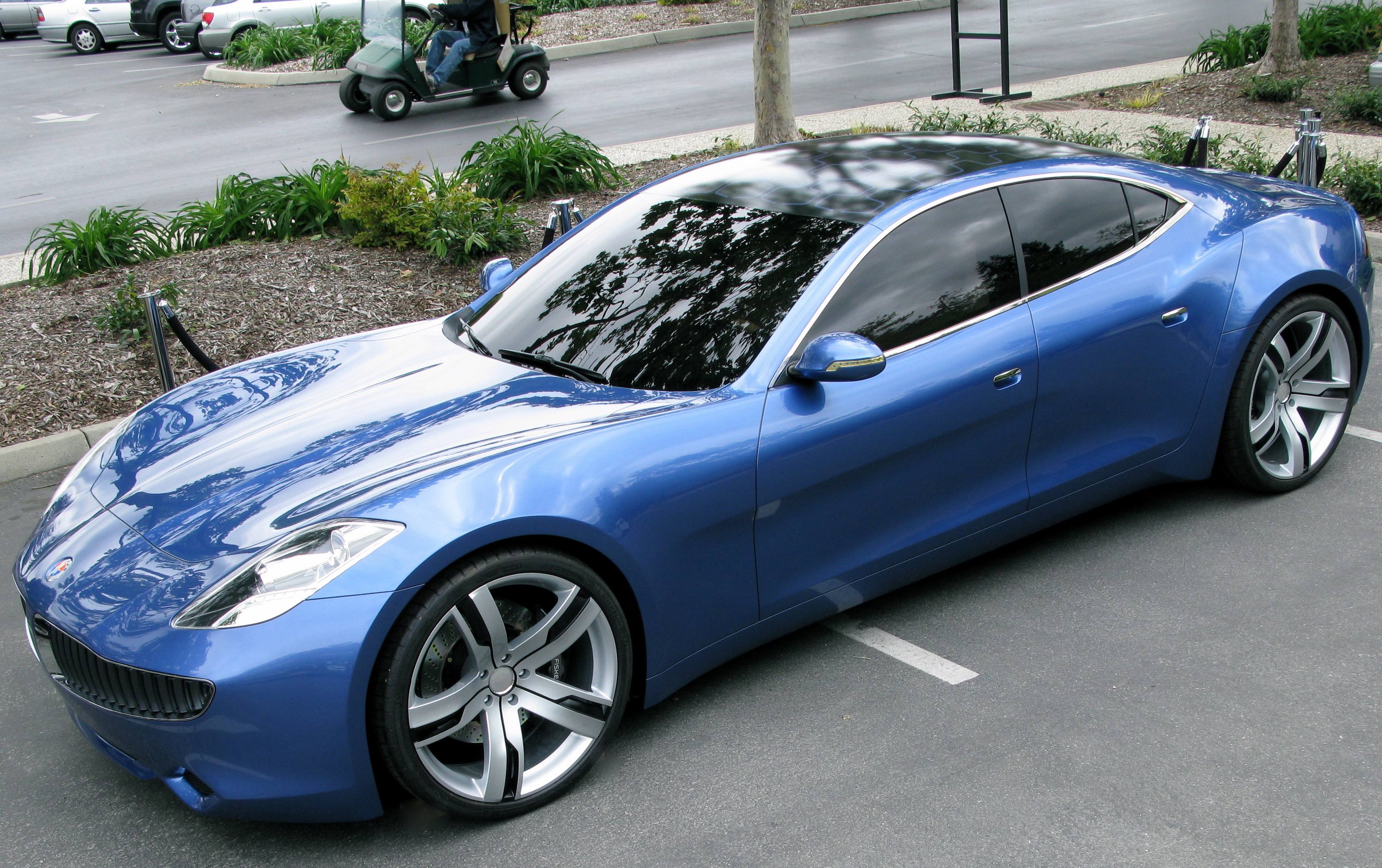 The Fisker Karma PHEV with solar panel roof, seen at the Nordic Green conference today